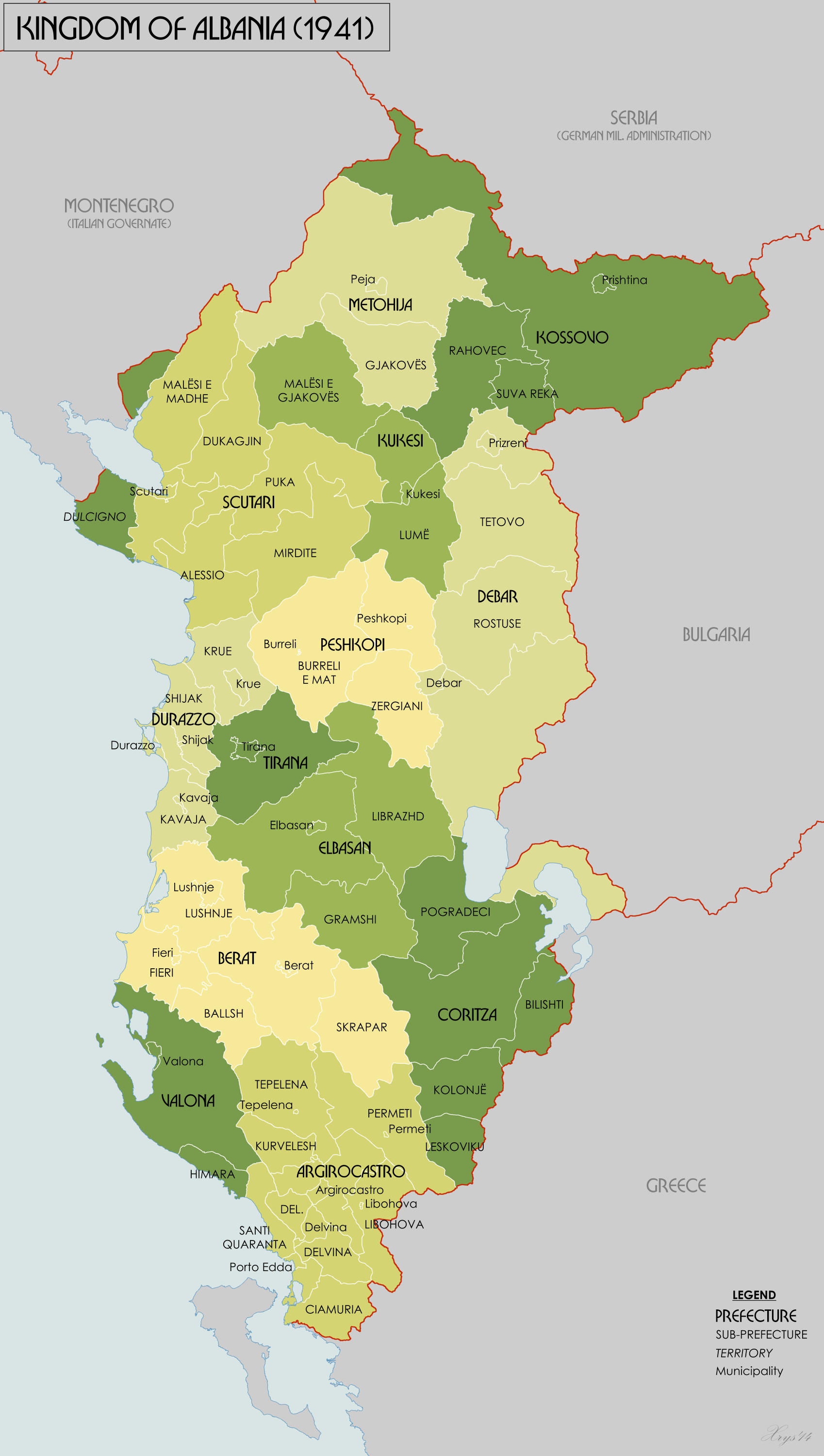 Administrative map of the Kingdom of Albania (1941). Source data: Ubersichtskarte von Mitteleuropa 1:300k ( Albania OR 5824, 1944 (British Library) Yugoslavia and Albania, MDR Misc 6779 (1943) (British Libary). Volkstumskarte von Jugoslawien 1:200k (York University, Toronto)